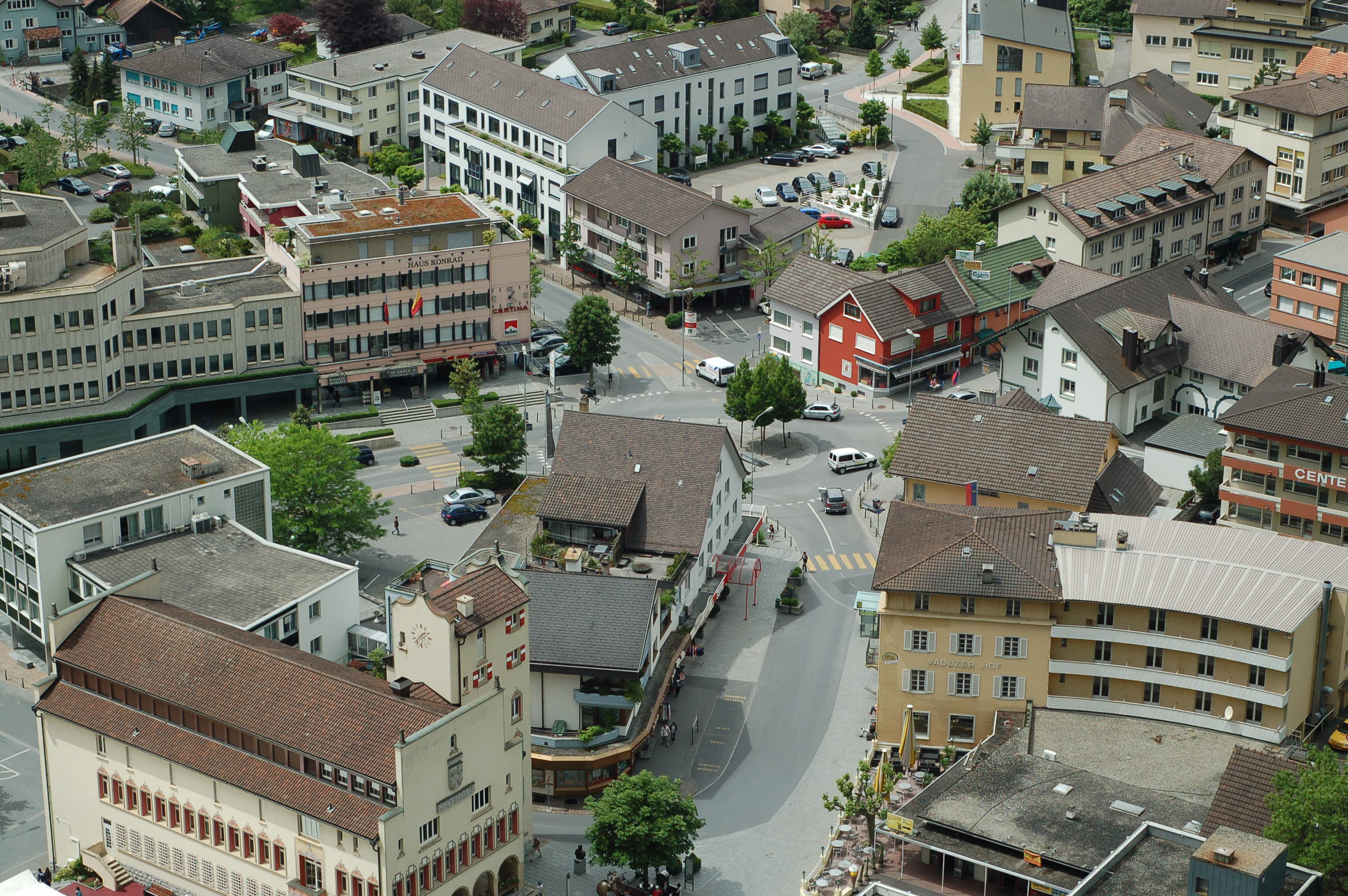 Vaduz, the capital of Liechtenstein View from castle hill on city centre